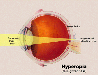 Diagram of a human eye with hyperopia